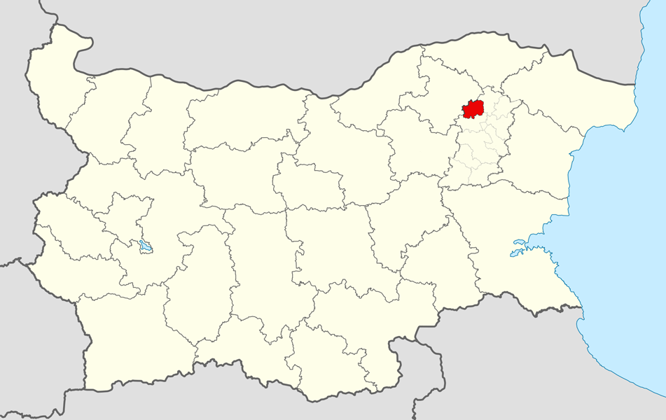 Location map of Venets Municipality within Bulgaria and Shumen Province. Equirectangular projection, N/S stretching 130 %. Geographic limits of the map: N: 44.4° N S: 41.1° N W: 22.1° E E: 28.9° E